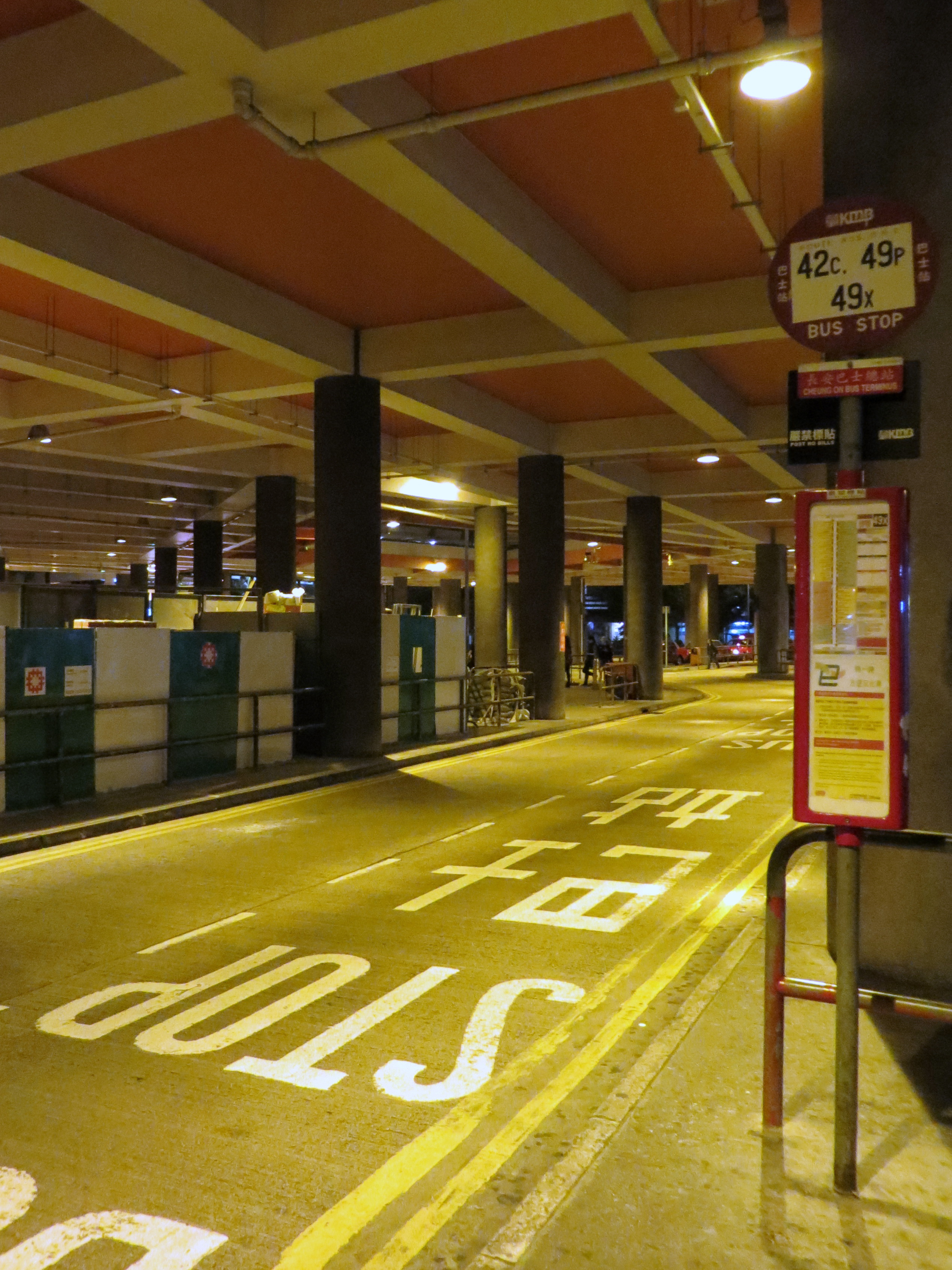 Cheung On Bus Terminus, Tsing Yi, New Territories, Hong Kong.